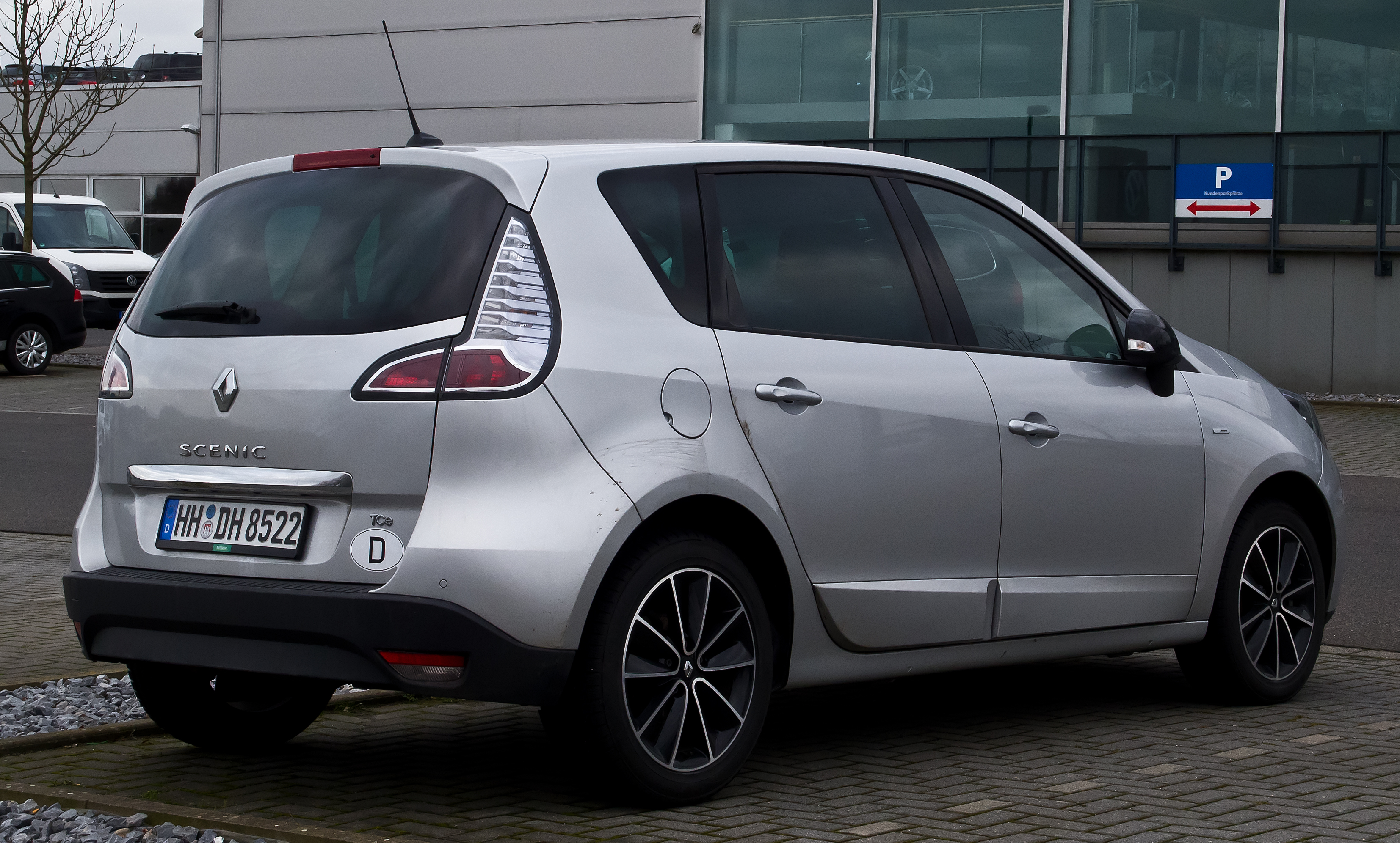 Renault Scénic Bose Edition ENERGY TCe 130 Start & Stop (III, 2. Facelift)